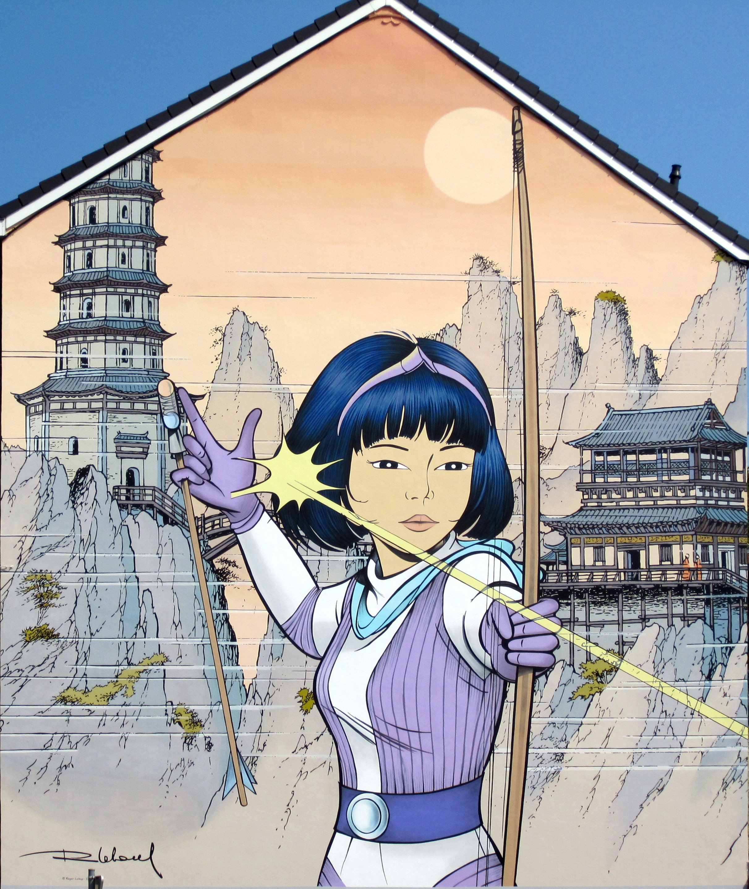 Crop of File:Yuko Tsuno mural Verviers 2018.jpg.